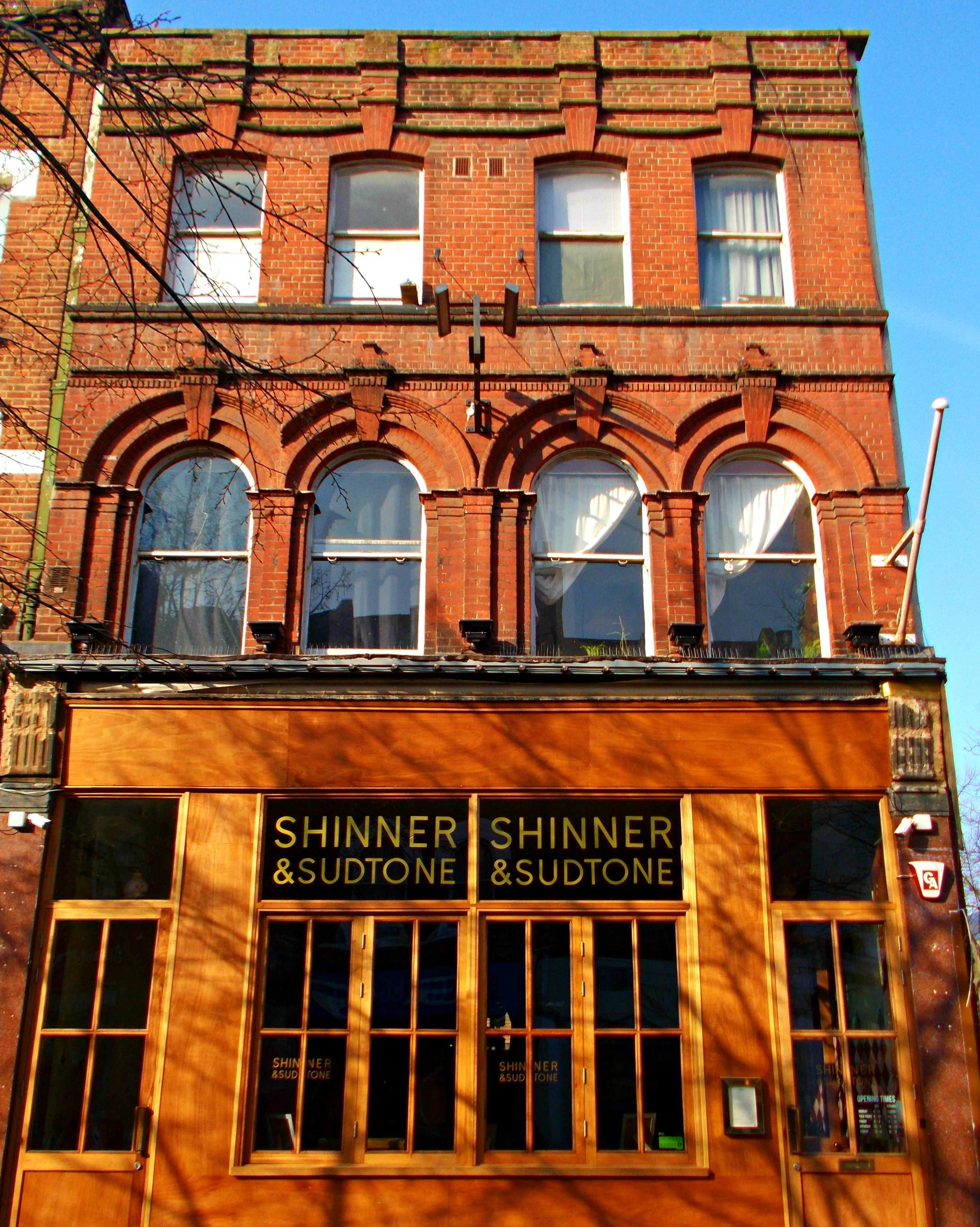 Pub in the vintage, "shabby chic" Antic chain, known as the Shinner and Sudtone, after a former department store in the town (Shinner's) and the old original name of the town (Sudtone).